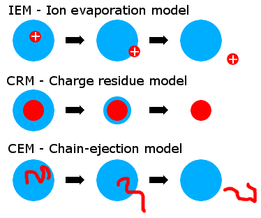 IEM (ion evaporation model), CRM (charge residue model) and CEM (chain-ejection model) in ESI (electrospray ionization), which is used in mass spectrometry.